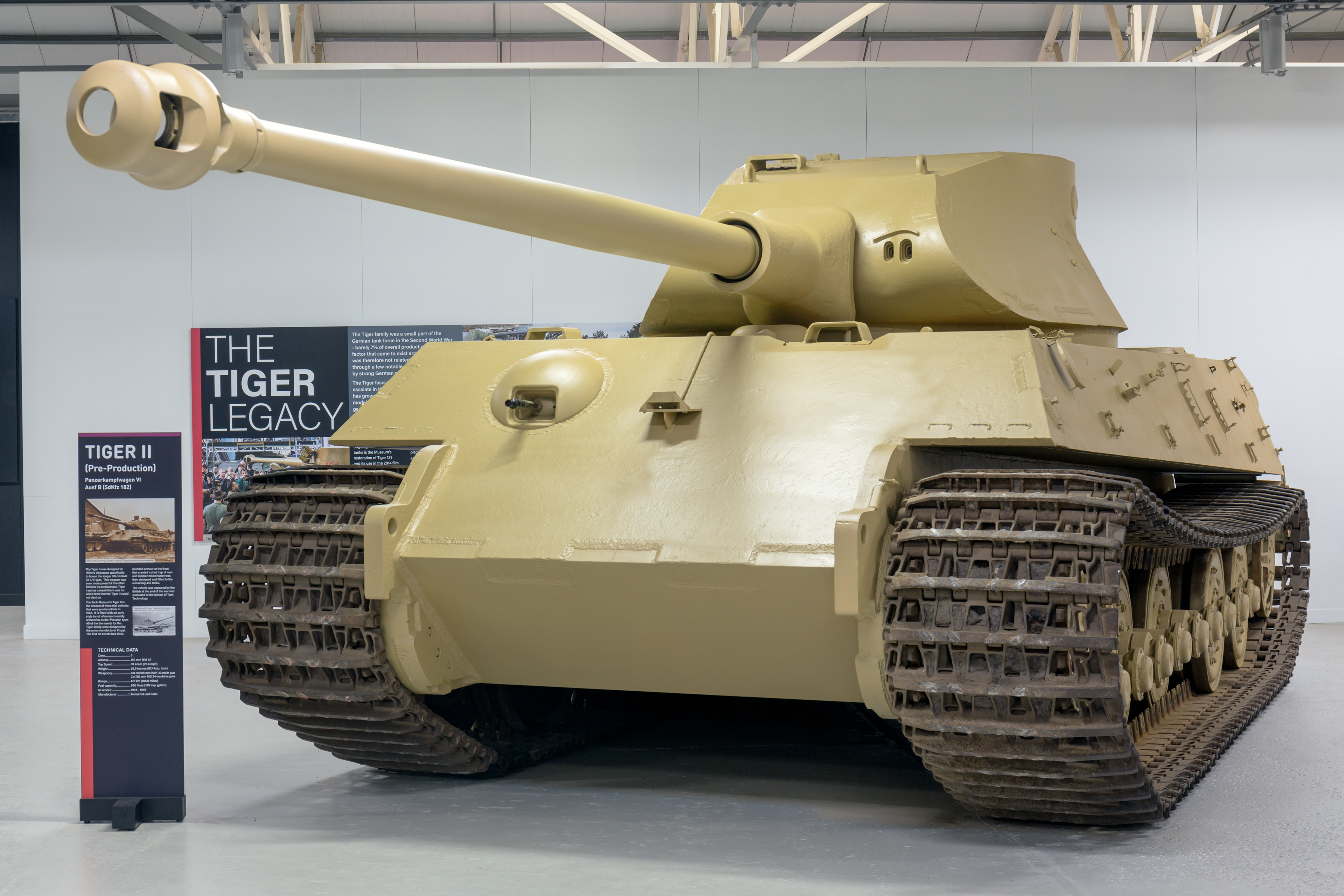 Bovington Tank Museum: Panzerkampfwagen VI Ausführung B, Tiger II (Porsche turret)